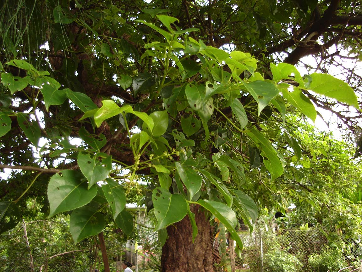 Flowers & leaves of Bischofia javanica (koka) in Tonga